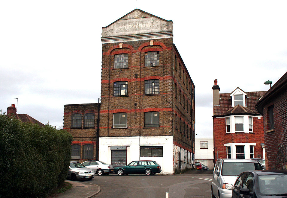 Beddington: Wandle Mill That is the name displayed on the side of this building but was almost certainly not its original name. If anyone has any information about this building, such as date of building, past and present uses, I would be grateful to receive them and incorporate them in this description.